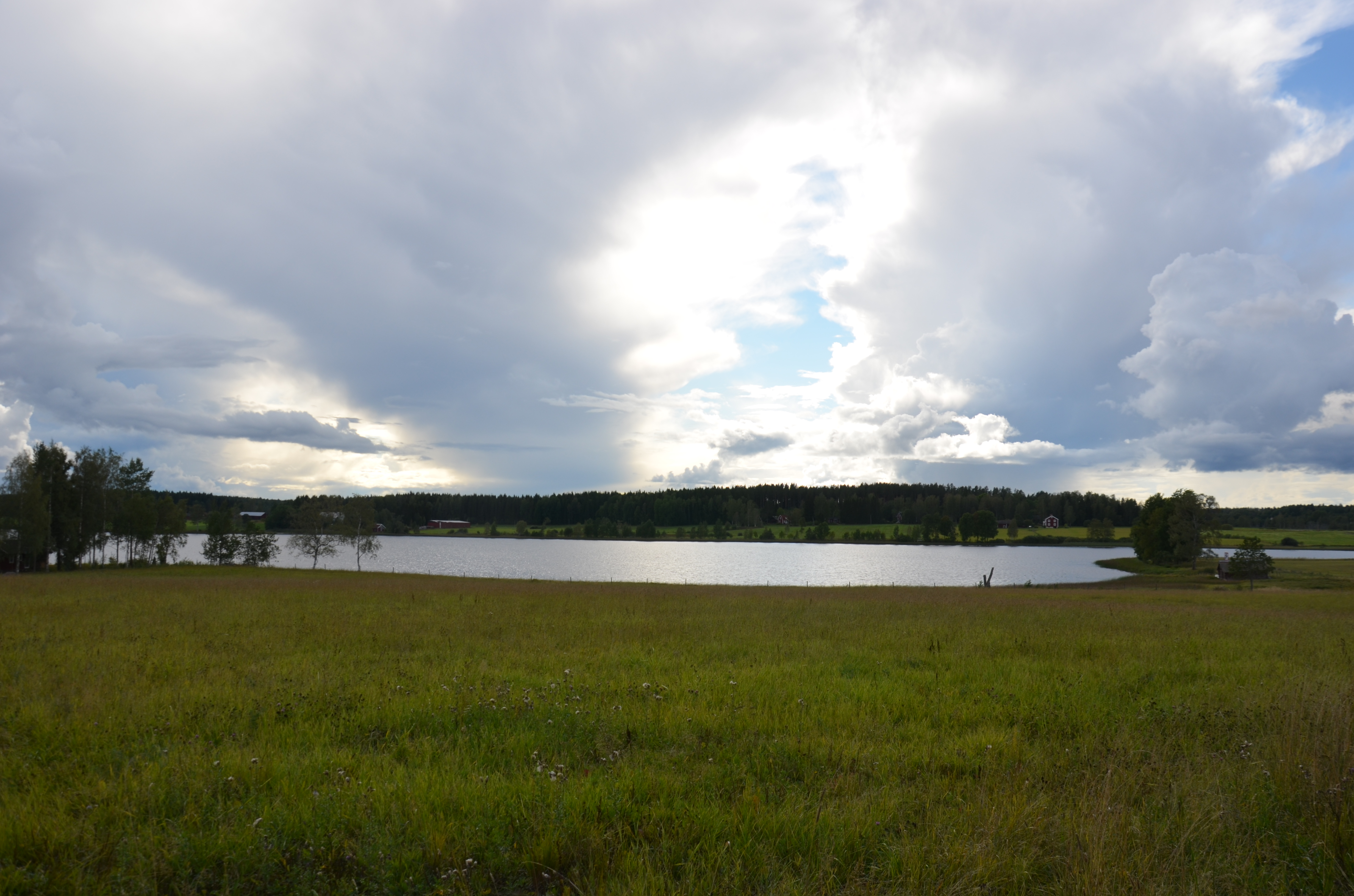 Labodasjön, Norberg, från norra ändan söderut